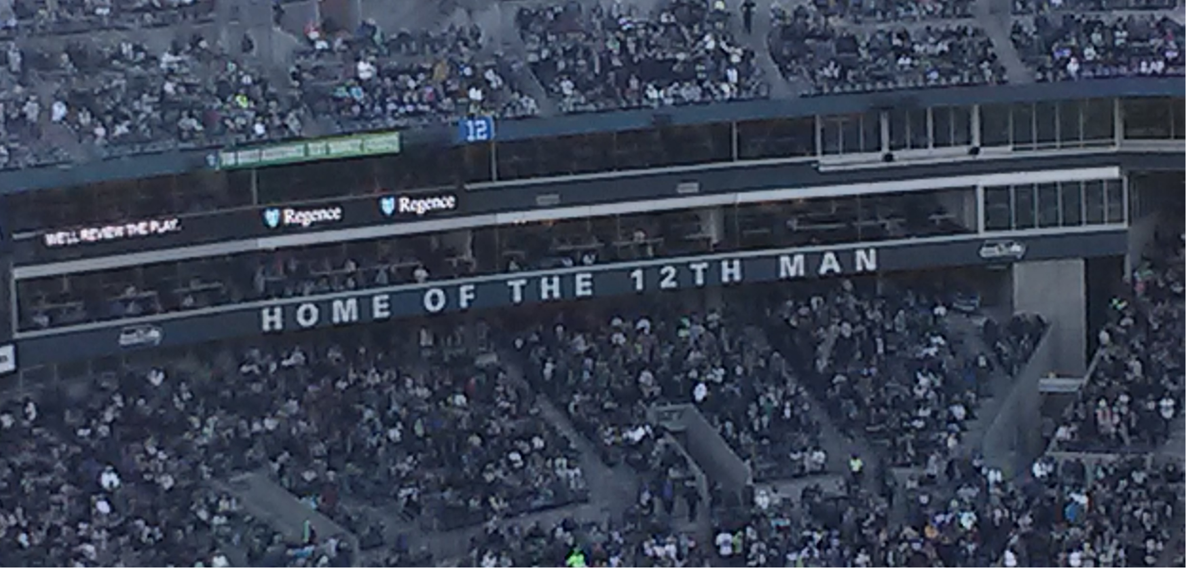 The former Seattle Seahawks "Home of the 12th Man" signage within CenturyLink Field.